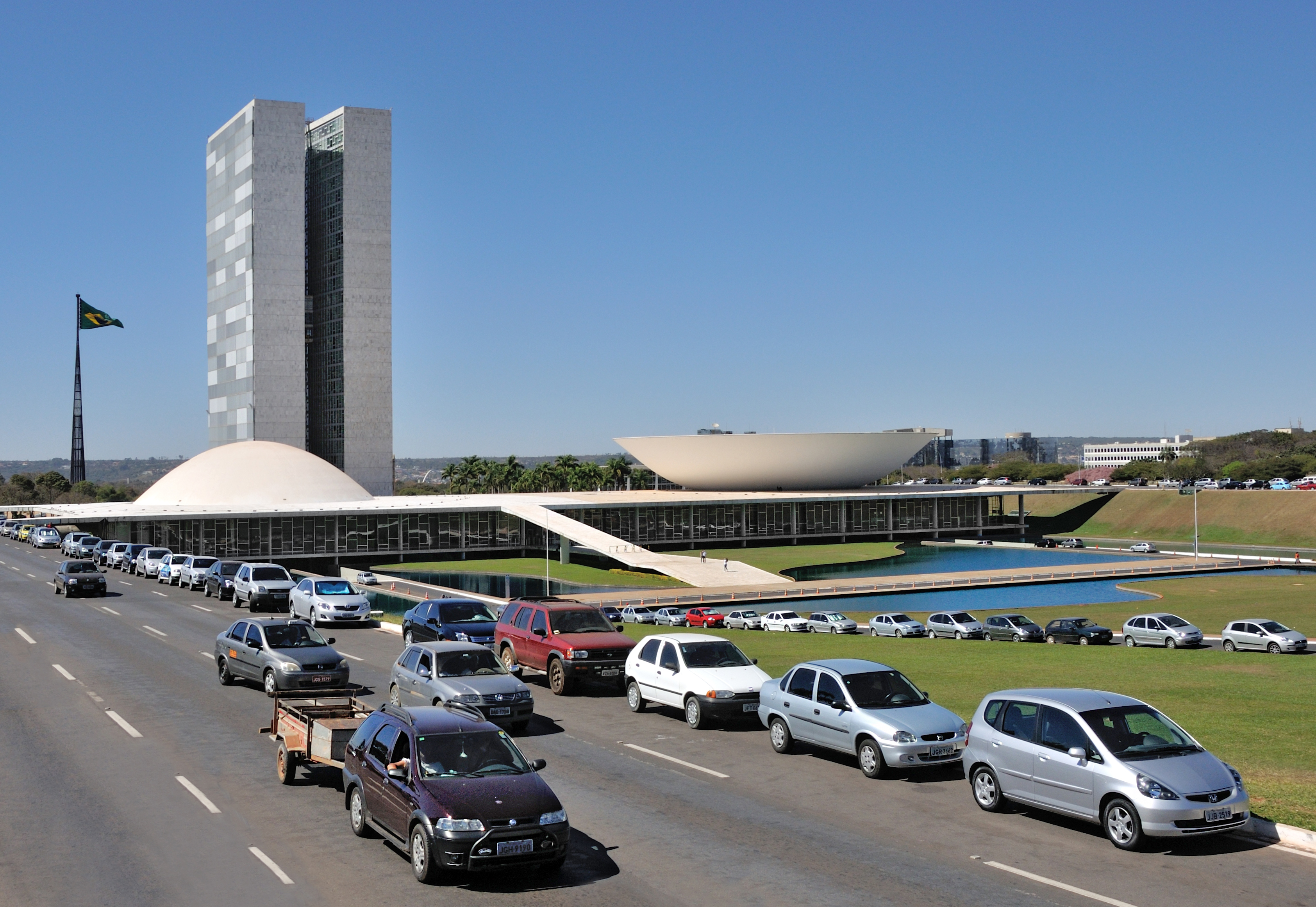 The National Congress of Brazil in Brasilia.